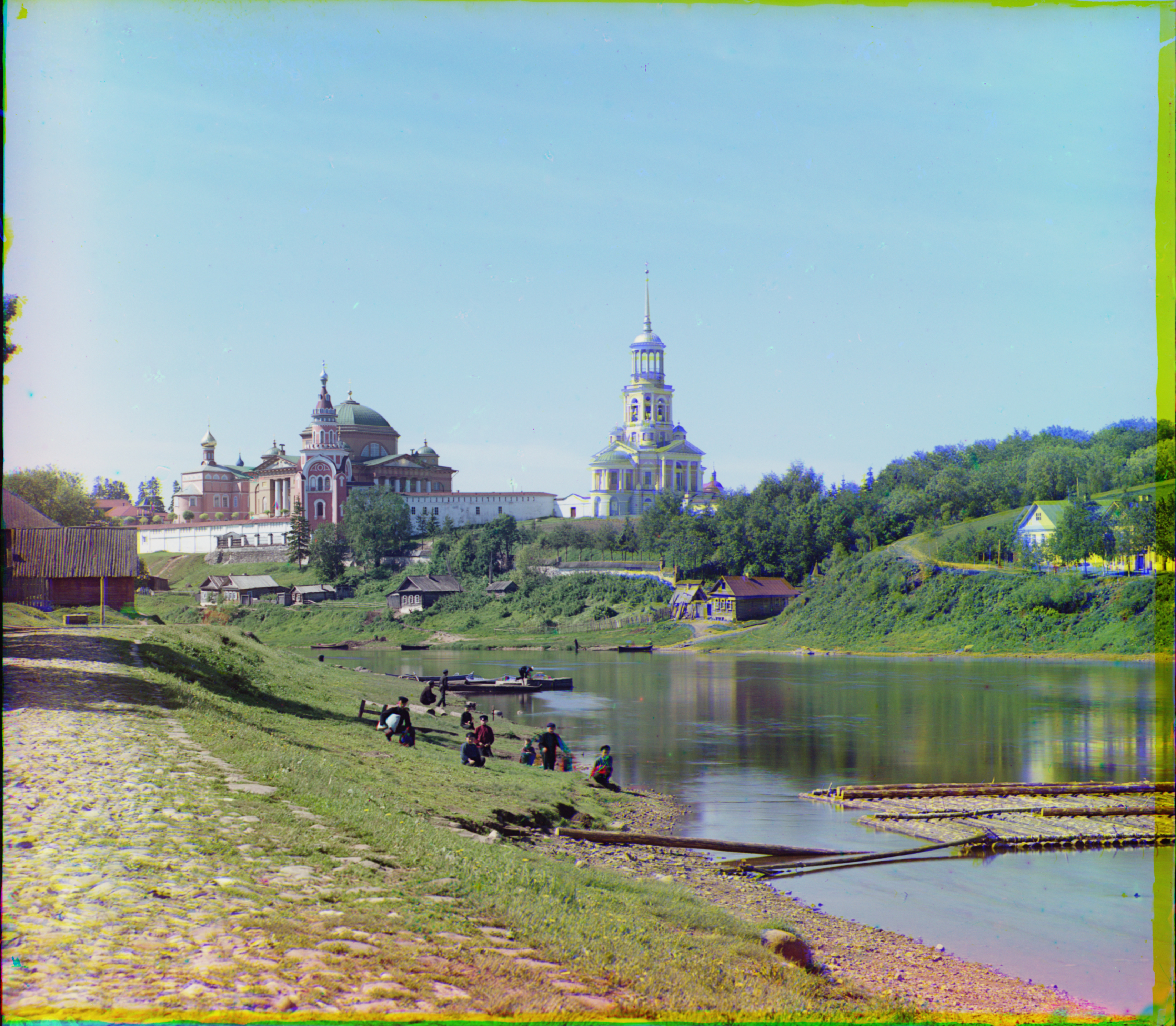 A photograph of the abbey of Sts Boris-Gleb in Torzhok.